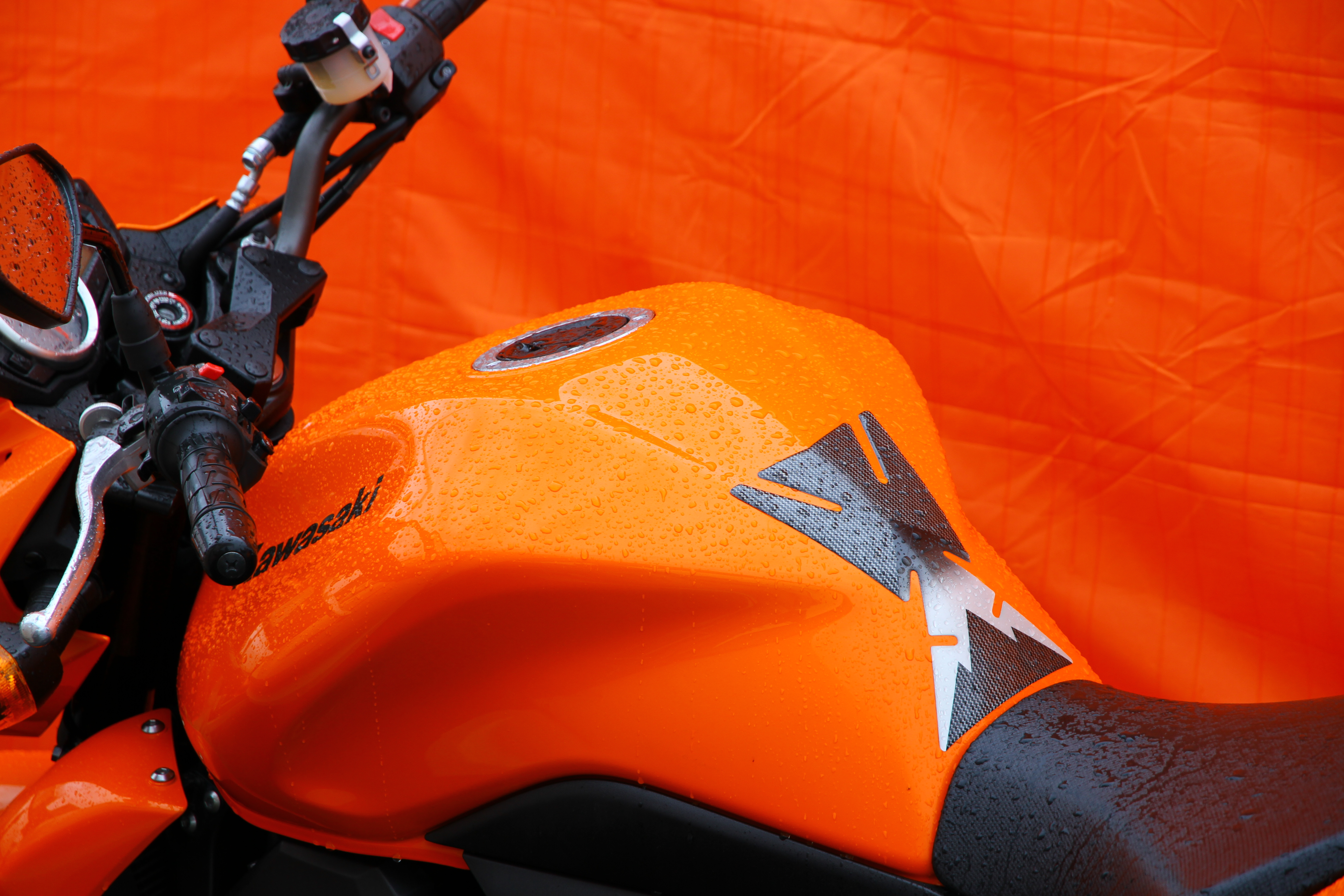 FHRA Kamasa Drag Race Week at Alastaro Circuit, Finland.